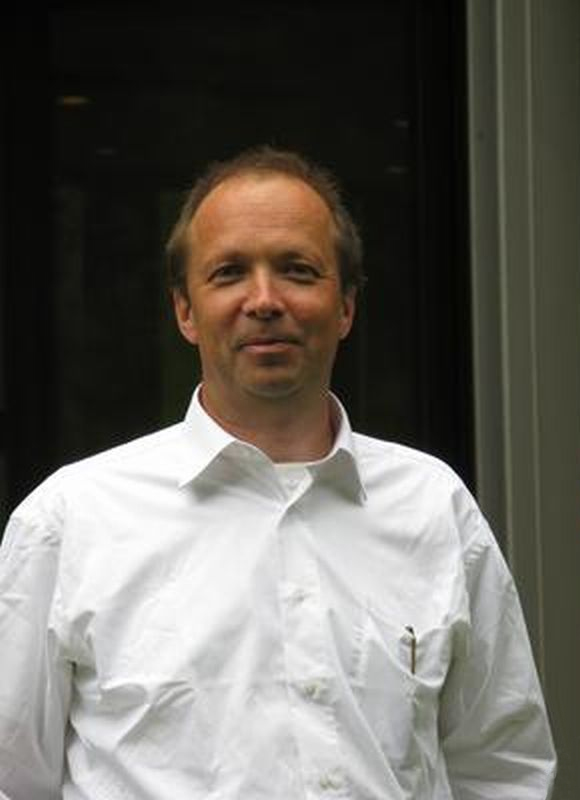 Bas Edixhoven, Oberwolfach 2008